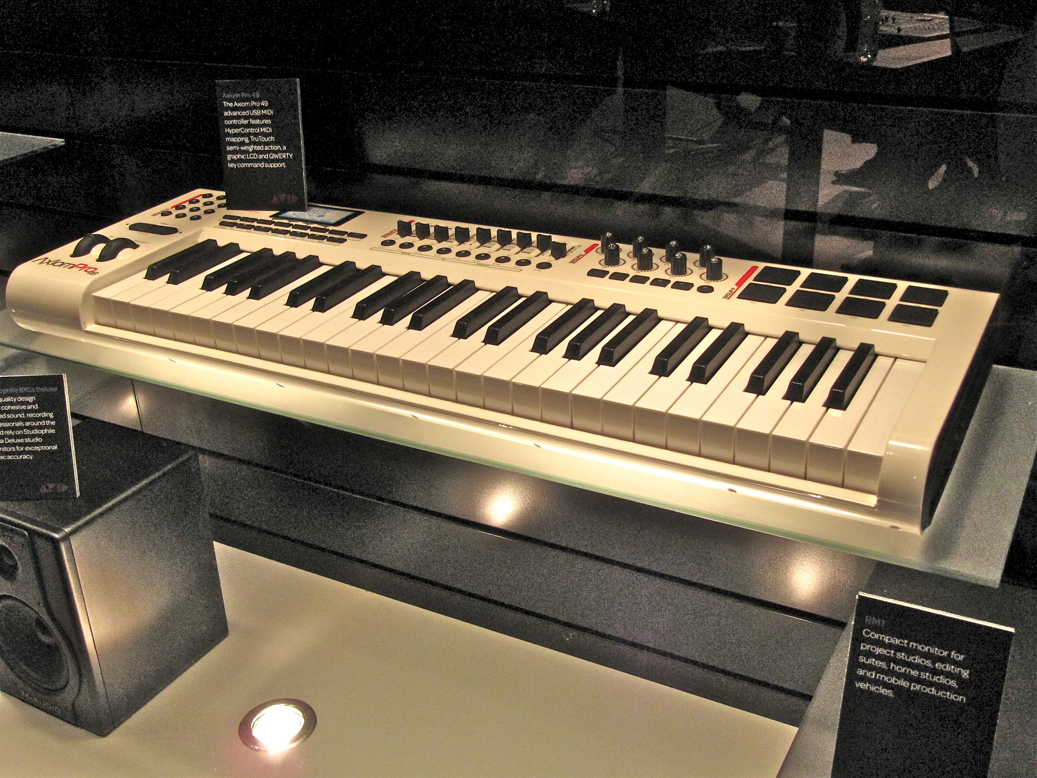 M-AUDIO Axiom Pro 49 USB/MIDI Controller at IBC 2009